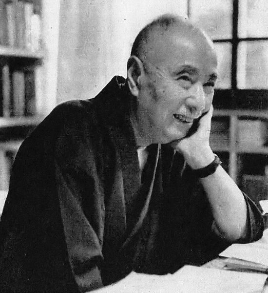 Kyoshi Takahama